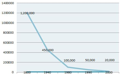 Lion Population (Y) Year (X)